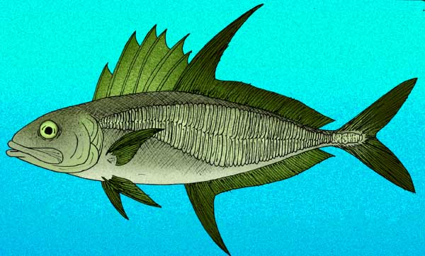 Reconstruction of the Eocene jackfish, Eastmanalepes primaevus (syn. Caranx primaevus), from Monte Bolca, Italy